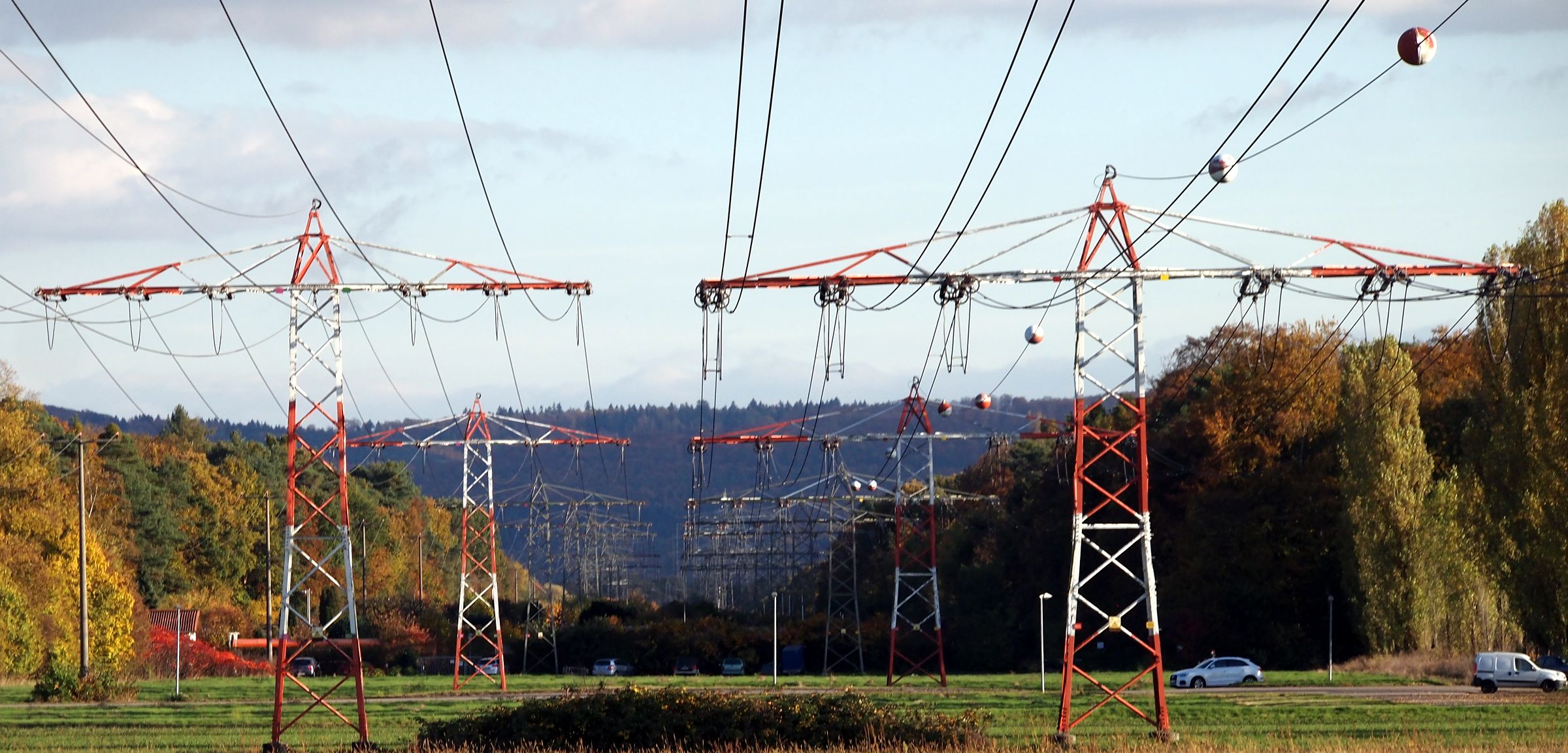 High-voltage overhead power lines in single-level arrangement at the Karlsruhe-Forchheim Airfield in Germany. This low-profile configuration extends beyond the airfield to protect the landscape by matching tree height. The Heidenstücker allotment garden was developed along the path; roof access there is forbidden. 110 kV and 220 kV from the Daxlanden substation looking towards Oberwald substation